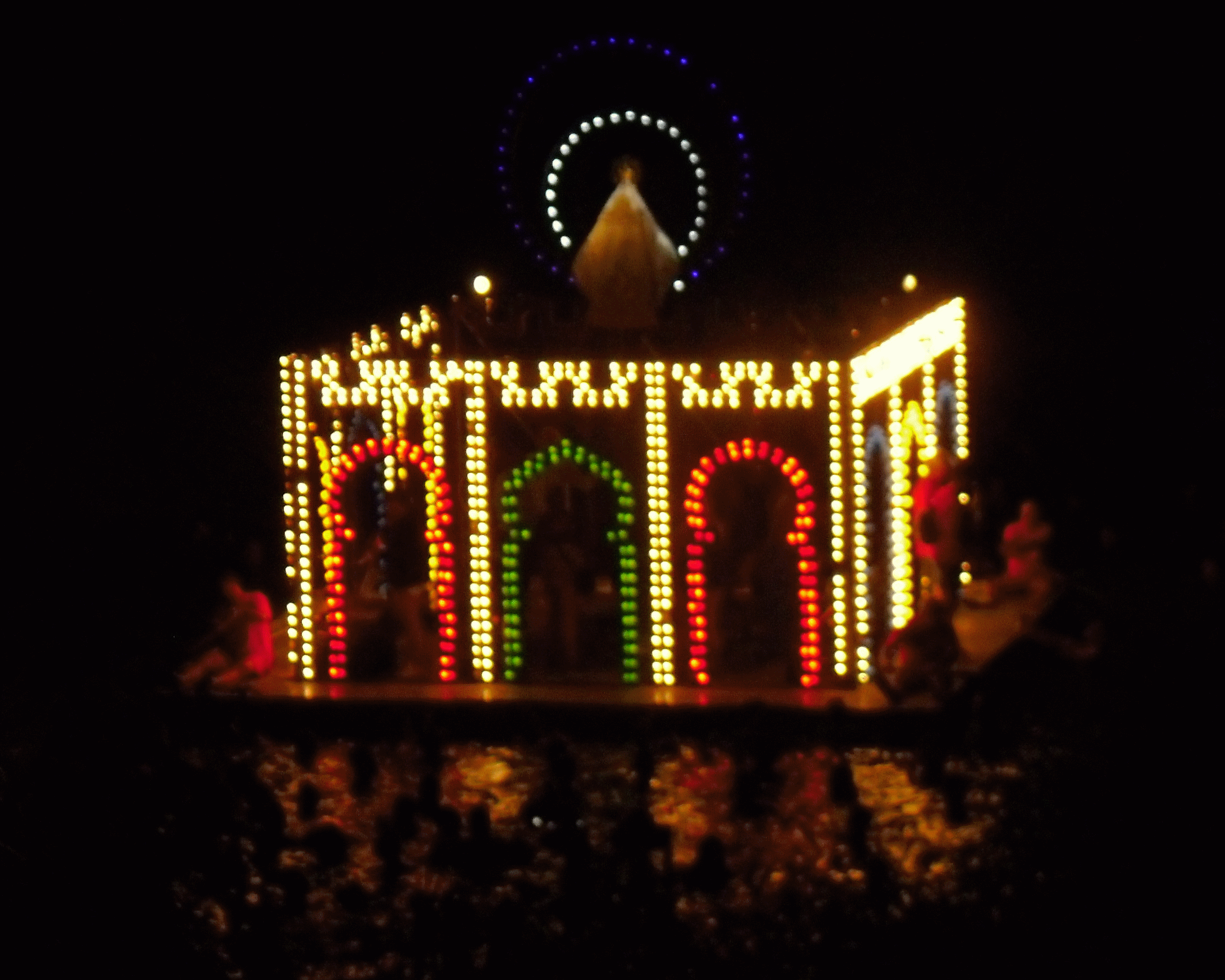 Image of the river procession to the Virgin of Alarilla in Fuentidueña de Tajo (Madrid)